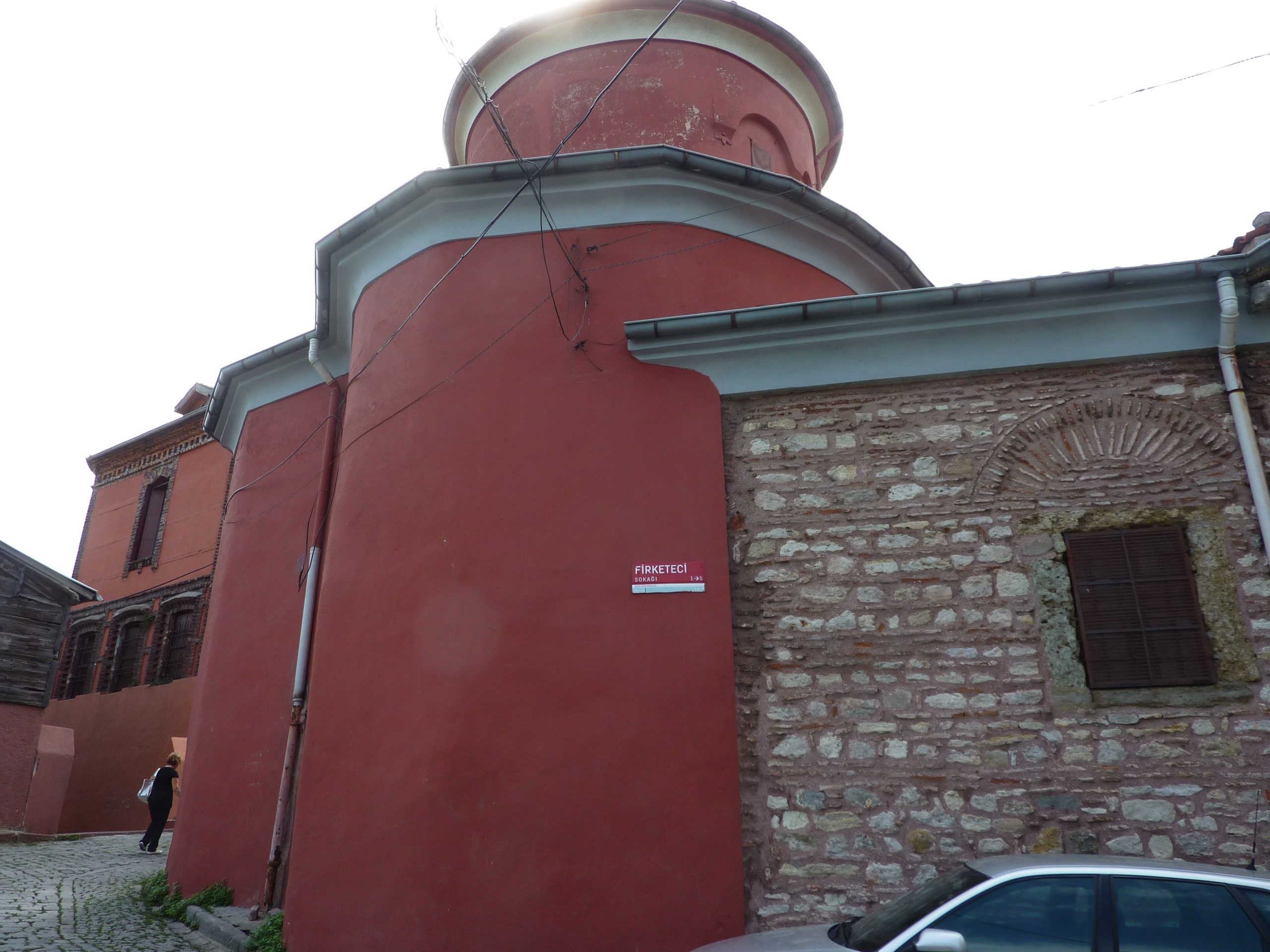 Church of St Mary of the Mongols, Istanbul